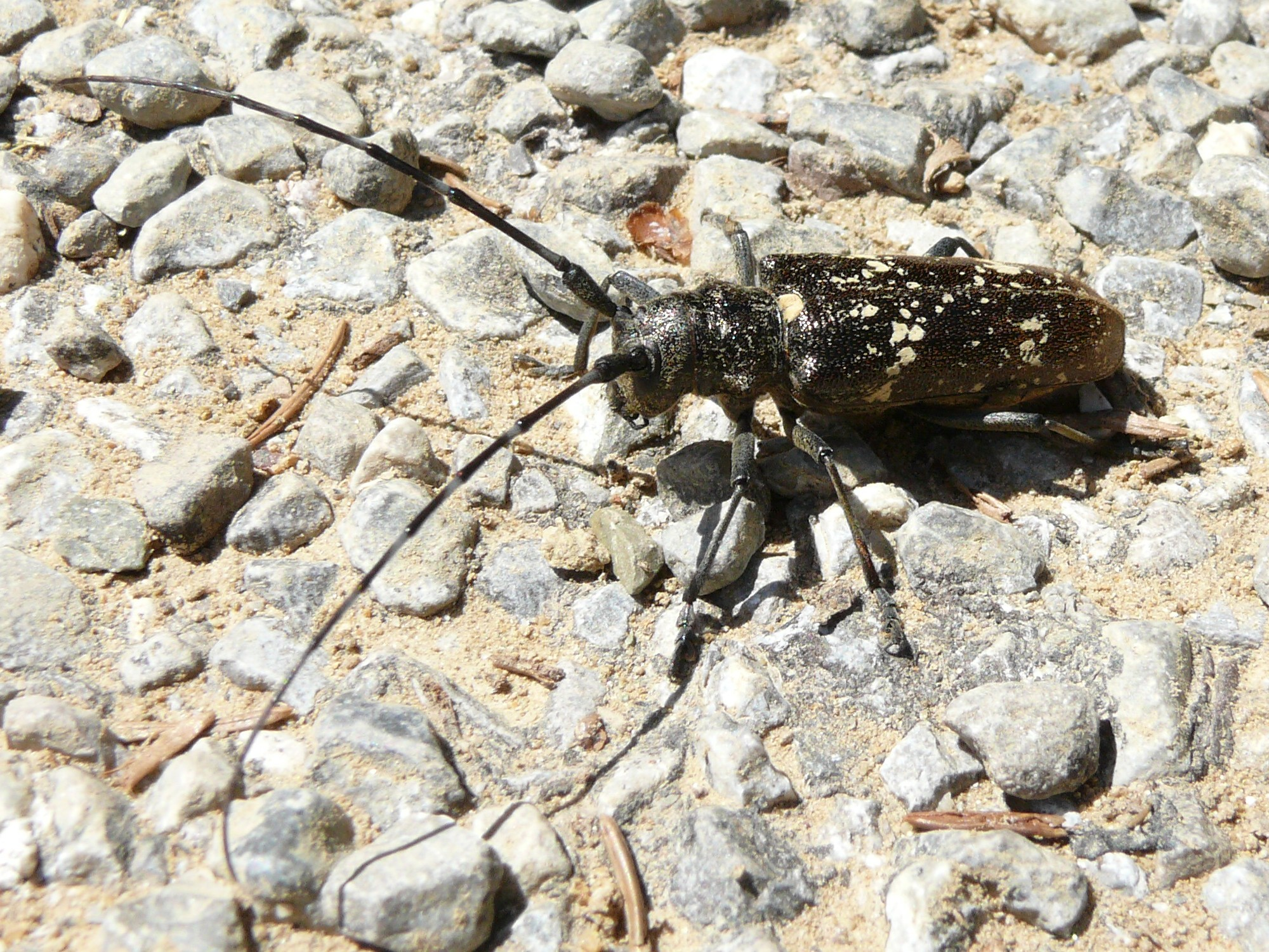 Female Longhorn-beetle Monochamus sartor, picture taken in the Allgäu area, Bavaria, Germany det. Manfred Egger